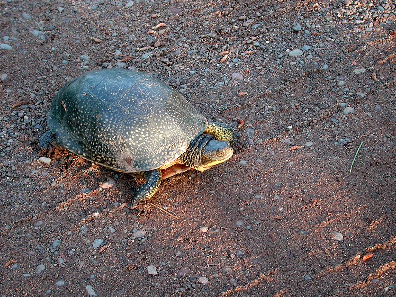 Blanding's Turtle (Emydoidea blandingii) in St. Croix State Park, Minnesota